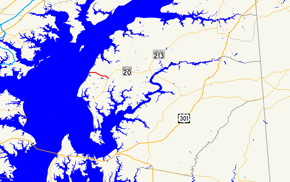 Map of Maryland Route 21